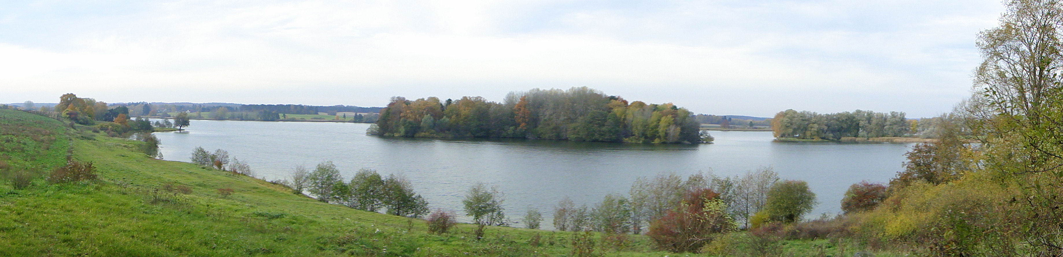 Lake Rödliner See in Groß Schönfeld, district Mecklenburg-Strelitz, Mecklenburg-Vorpommern, Germany